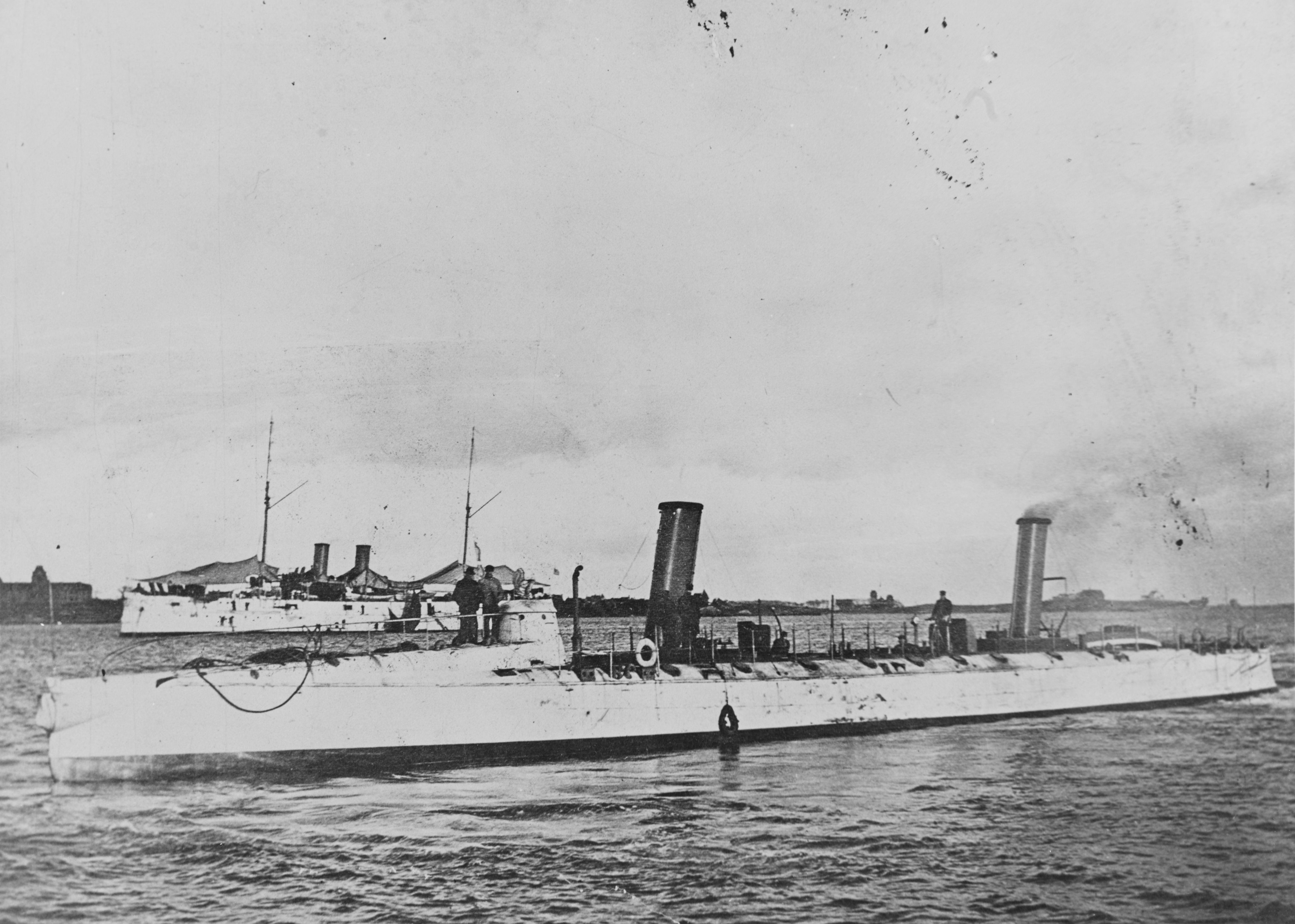 "Photographed circa 1897-98, with either USS Cincinnati or USS Raleigh in the left background. U.S. Naval History and Heritage Command Photograph." This version has been cropped from the original tiff file and saved to jpg format by uploader.